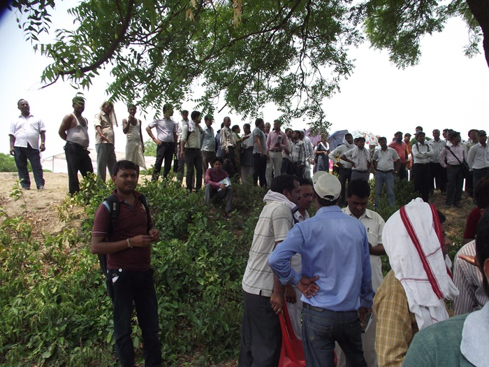 Congregation of people to pay tribute to Great Revolutionary of Revolt 1857 Raja Lone Singh of Mitauli